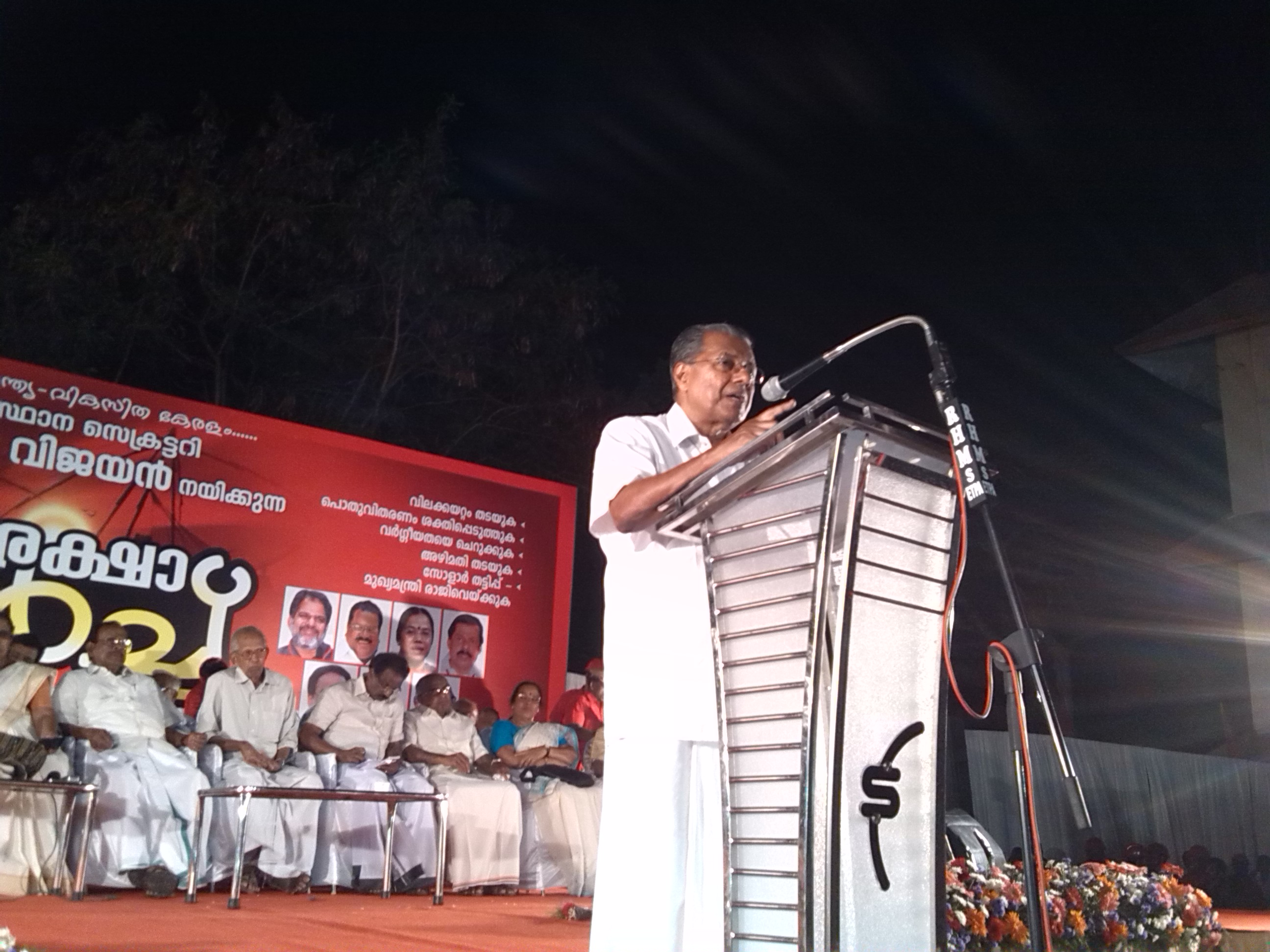 A march organised by CPIM Kerala state committee from Feb 1 2014 to Feb 26 2014